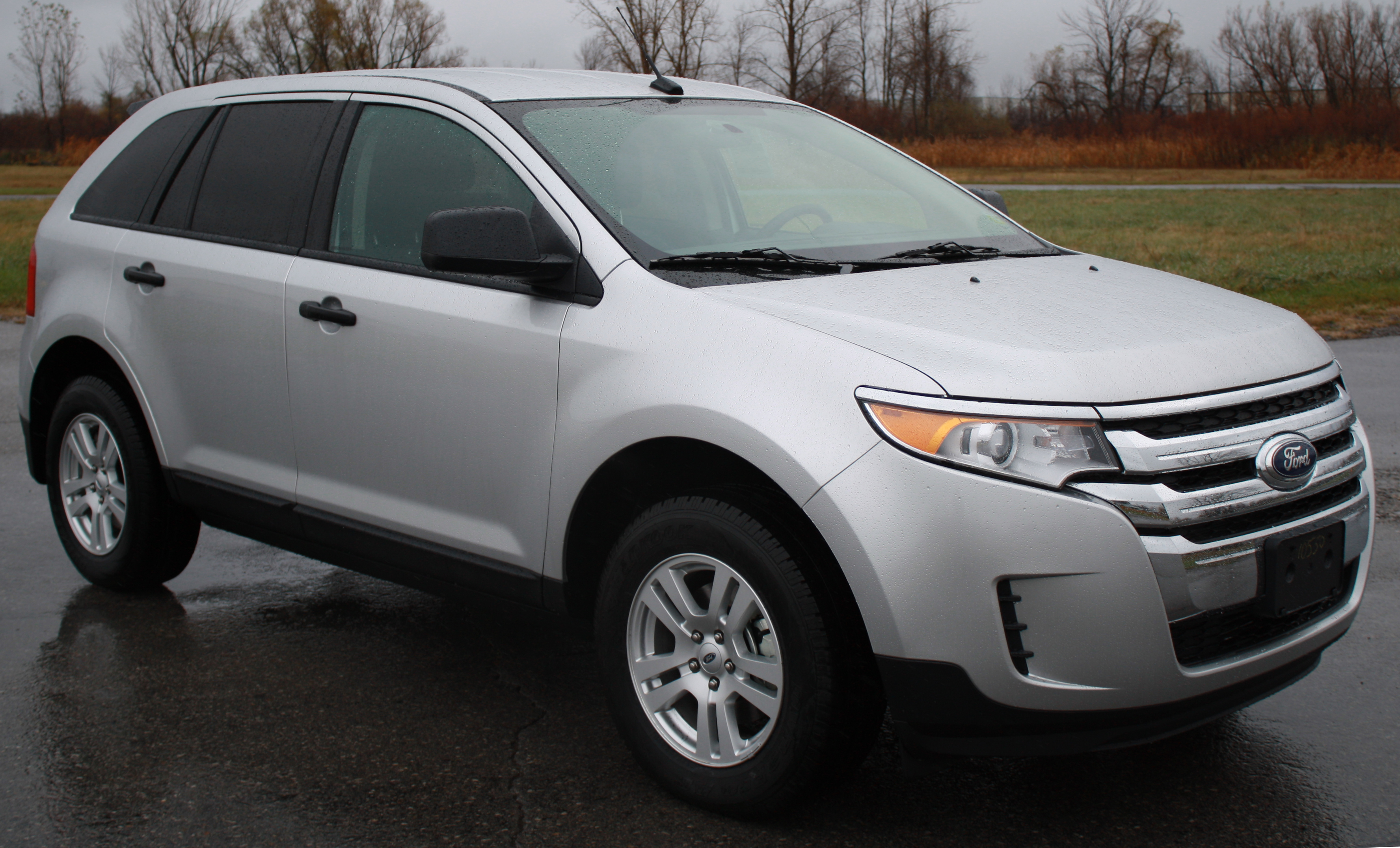 2011 Ford Edge photographed in USA.